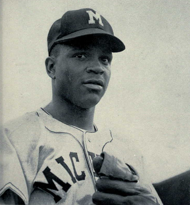 Photograph of Don Eaddy This work is in the public domain because it was published in the United States between 1924 and 1963 and although there may or may not have been a copyright notice, the copyright was not renewed. Unless its author has been dead for the required period, it is copyrighted in the countries or areas that do not apply the rule of the shorter term for US works, such as Canada (50 pma), Mainland China (50 pma, not Hong Kong or Macao), Germany (70 pma), Mexico (100 pma), Switzerland (70 pma), and other countries with individual treaties. See Commons:Hirtle chart for further explanation. This work is in the public domain in the United States because it was published in the United States between 1924 and 1977 without a copyright notice. See Commons:Hirtle chart for further explanation. Note that it may still be copyrighted in jurisdictions that do not apply the rule of the shorter term for US works (depending on the date of the author's death), such as Canada (50 p.m.a.), Mainland China (50 p.m.a., not Hong Kong or Macao), Germany (70 p.m.a.), Mexico (100 p.m.a.), Switzerland (70 p.m.a.), and other countries with individual treaties.